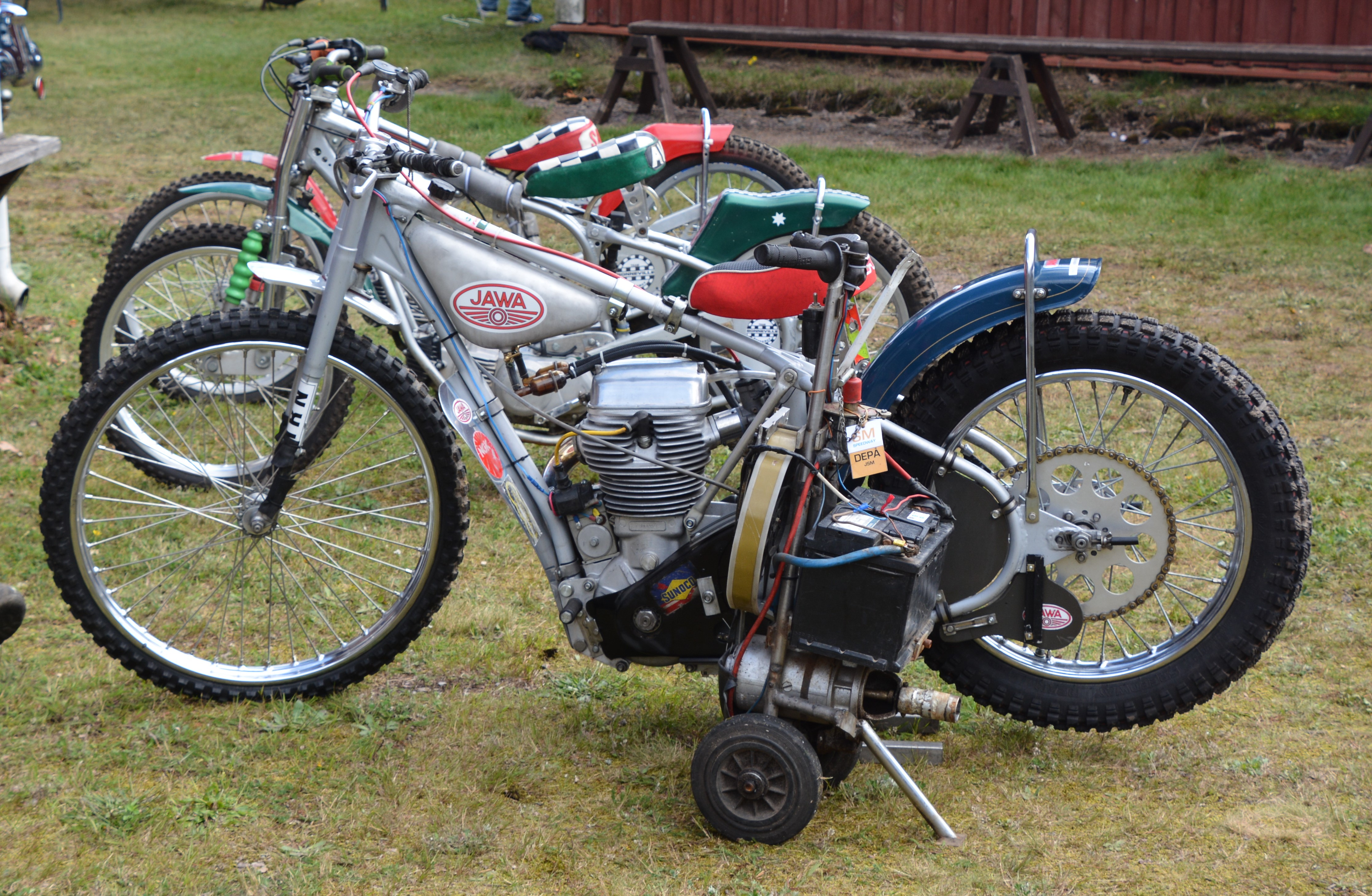 Speedwaymotorcyklar med tändvagn utanför Speedwaymuseet, Motorns dag Målilla